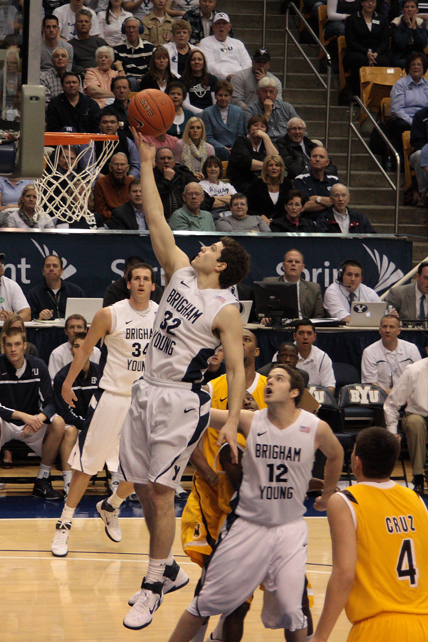 Jimmer Fredette finger roll vs. Wyoming, March 5, 2011